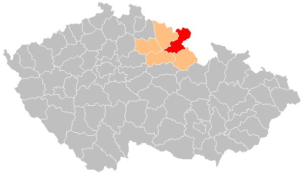 District of Náchod